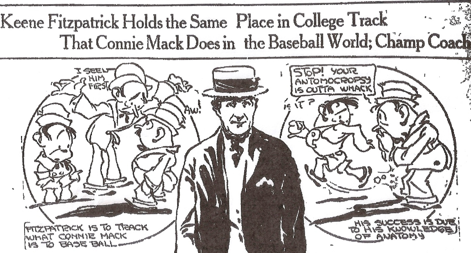 Cartoons depicting Keene Fitzpatrick